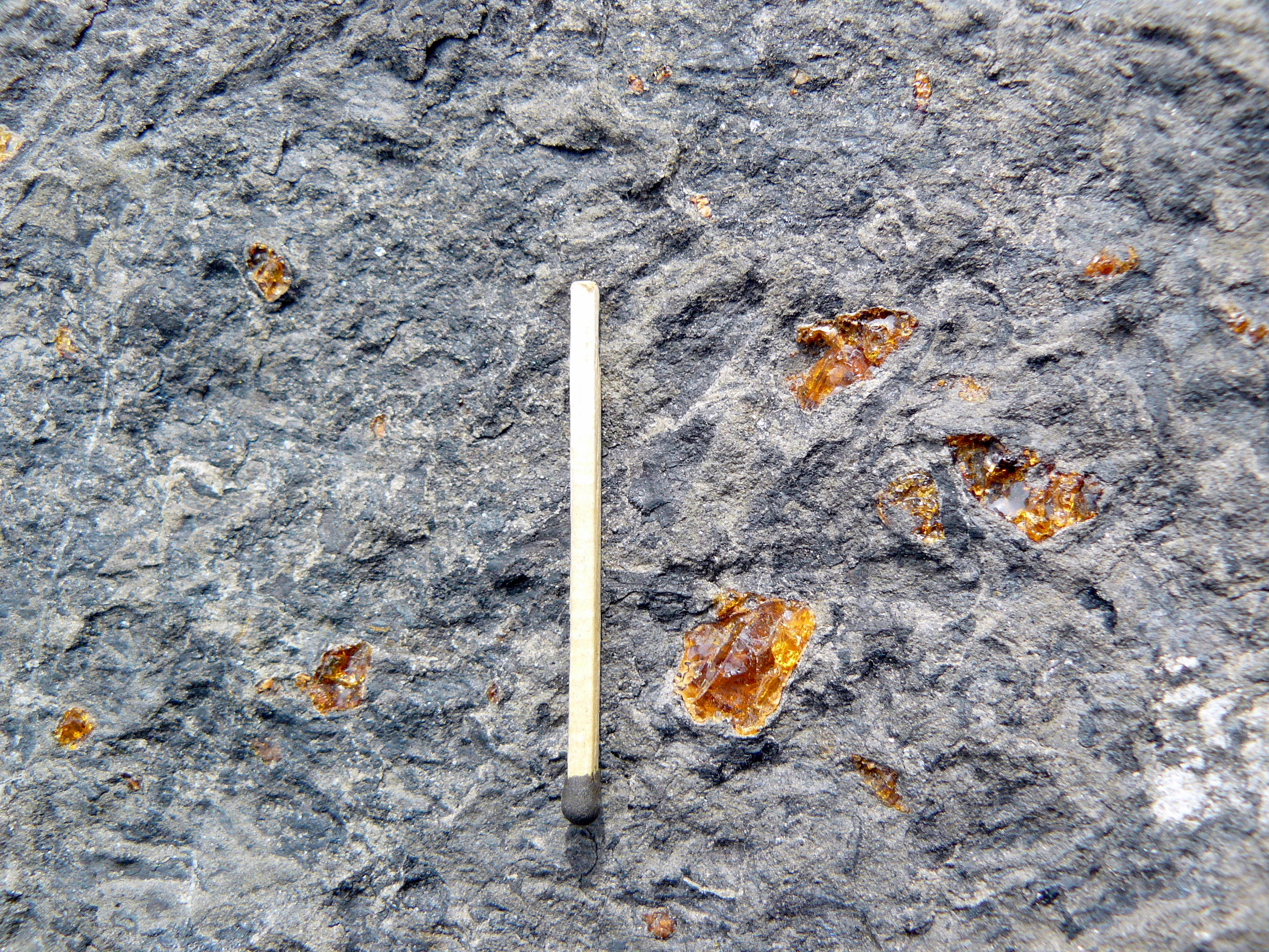 Amber from switzerland, called Plaffeiit